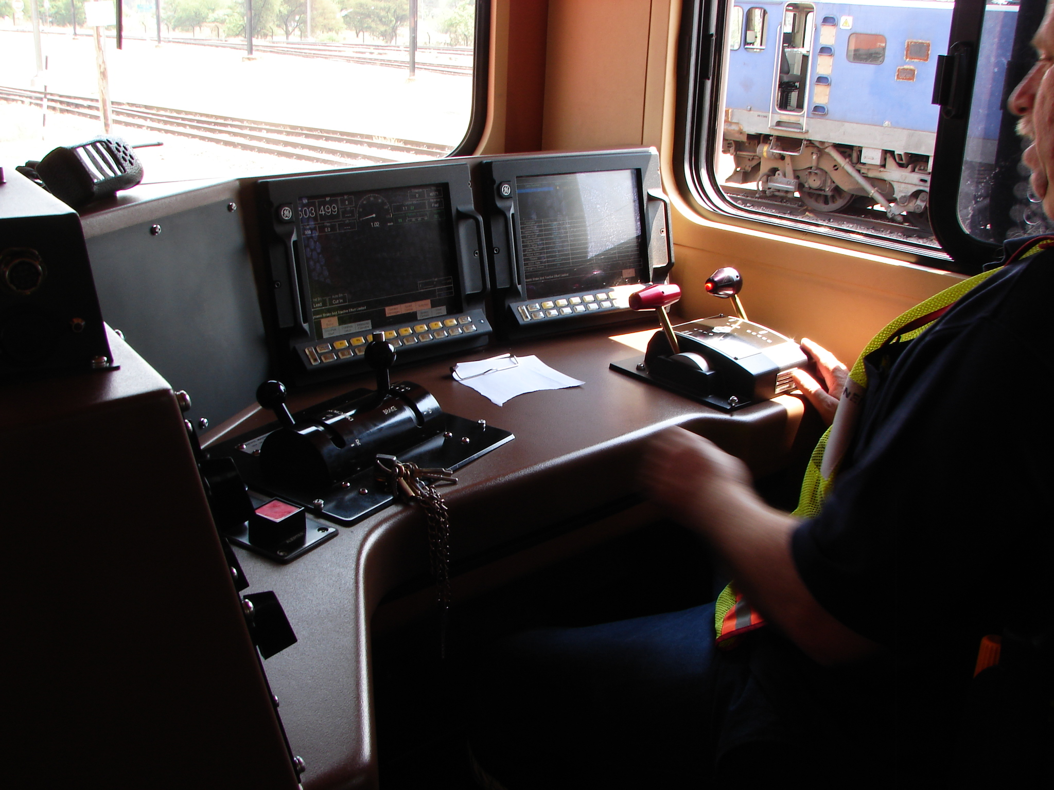 South African Class 43-000 no. 43-171 cab, with driver Polla DavisType: GE C30ACiLocation: Pyramid South, Gauteng